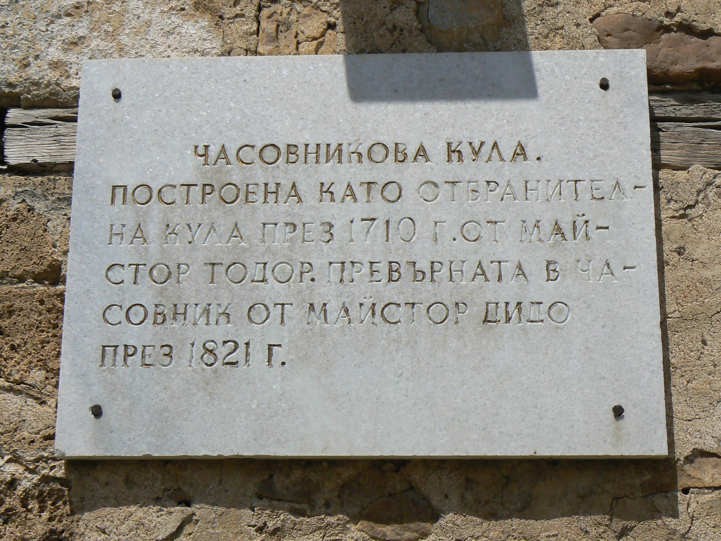 The memorial plaque on the clock tower in Etropole, Bulgaria